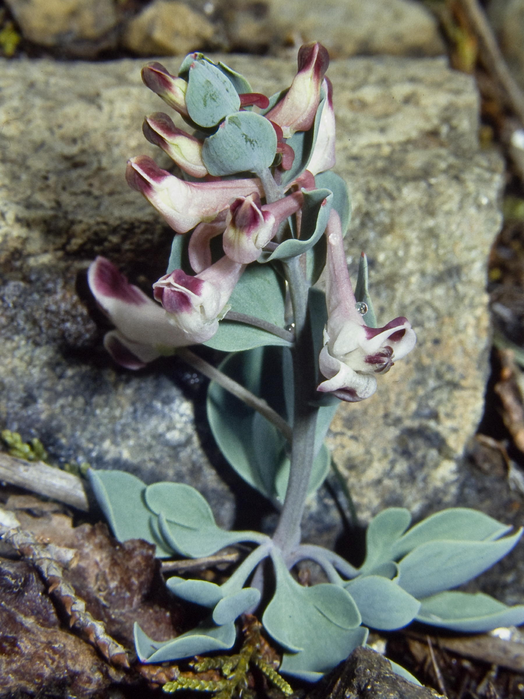 Corydalis rutifolia subsp. rutifolia, growing in an open rocky area near the summit of Mt Olympus, Cyprus